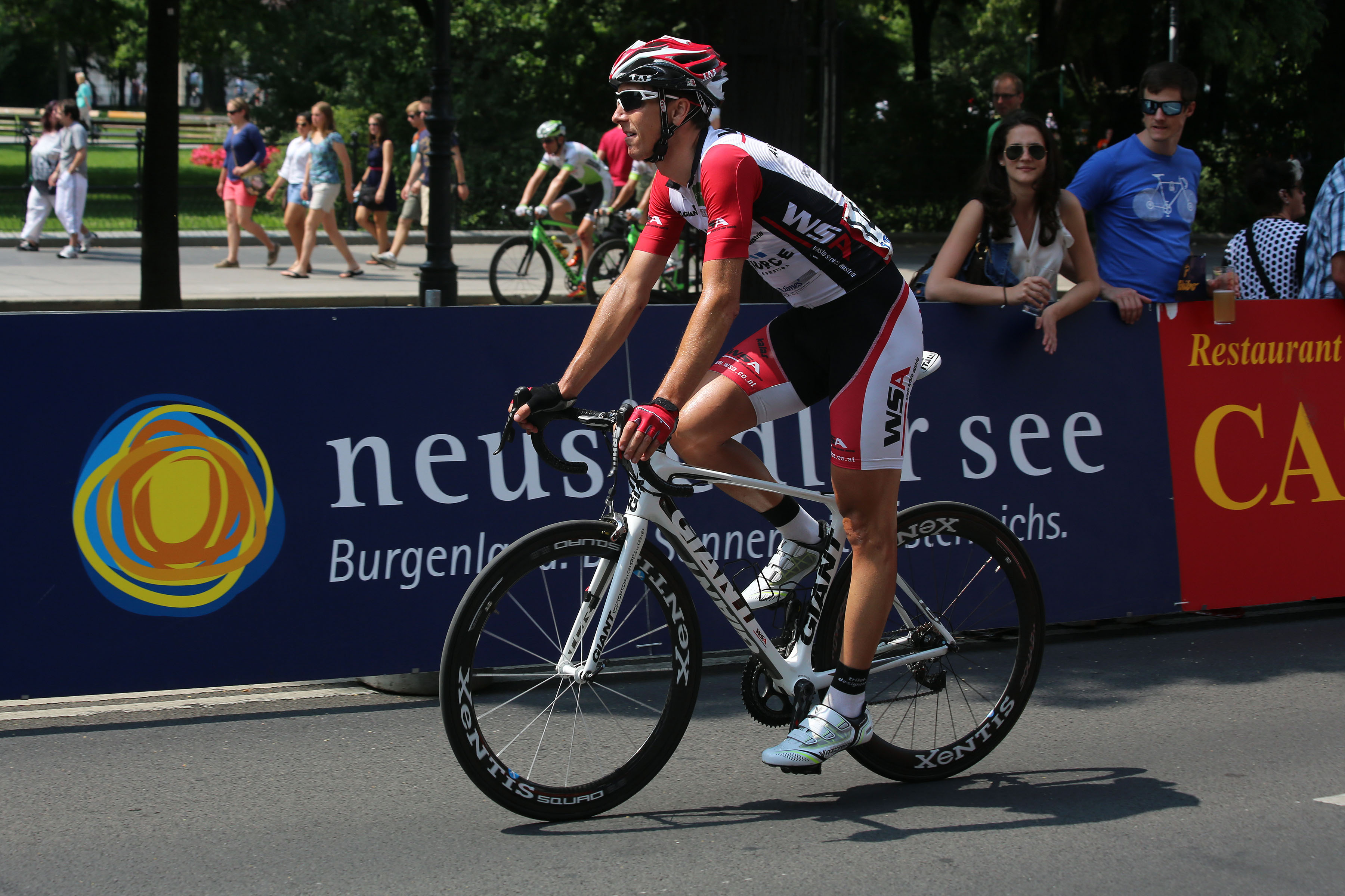 Josef Benetseder after finishing the final stage of the Tour of Austria in Vienna, Austria.